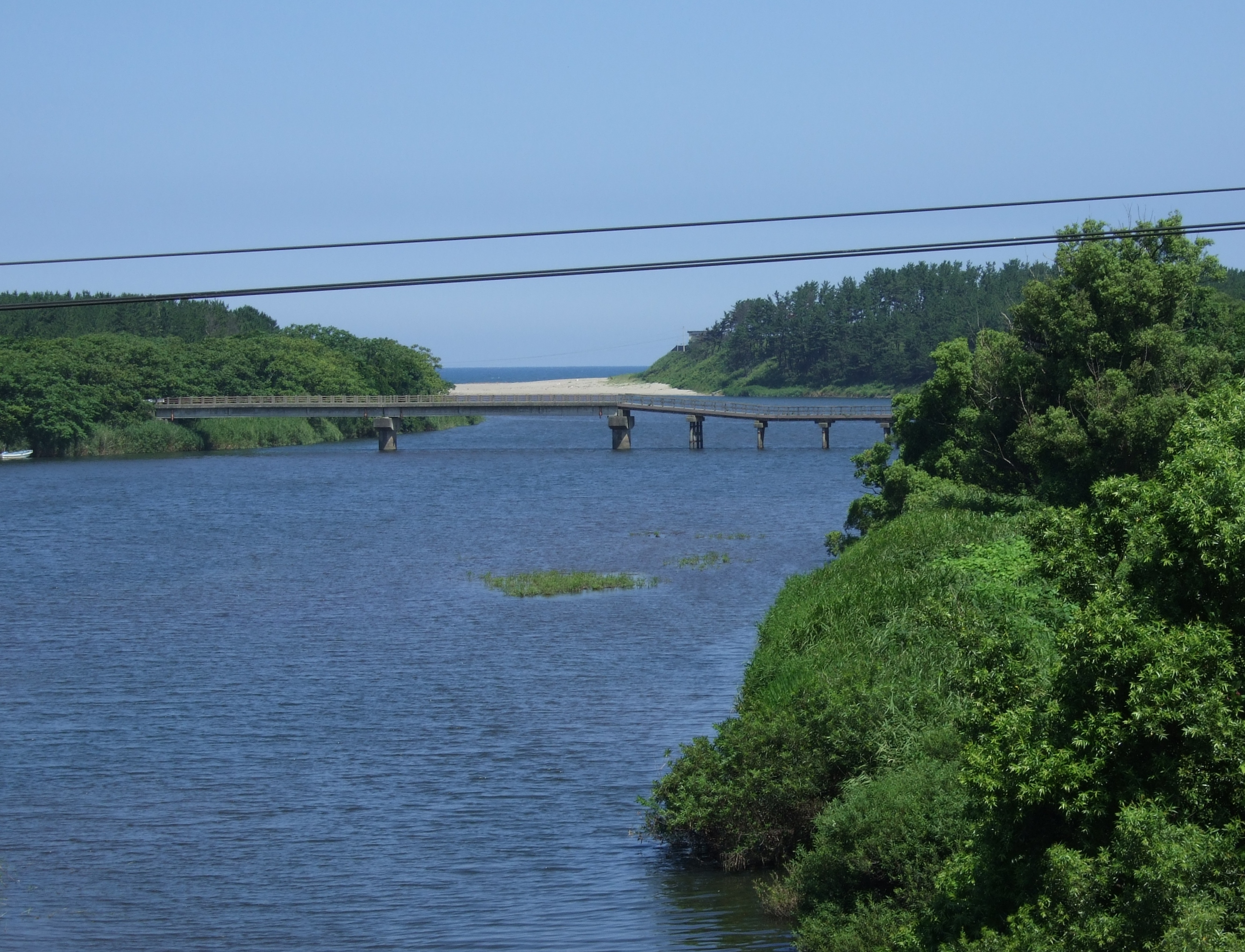 Sakae-basi (bridge) on Nikkou-gawa, at Yuza town, Akumi district, Yamagata prefecture, Japan.